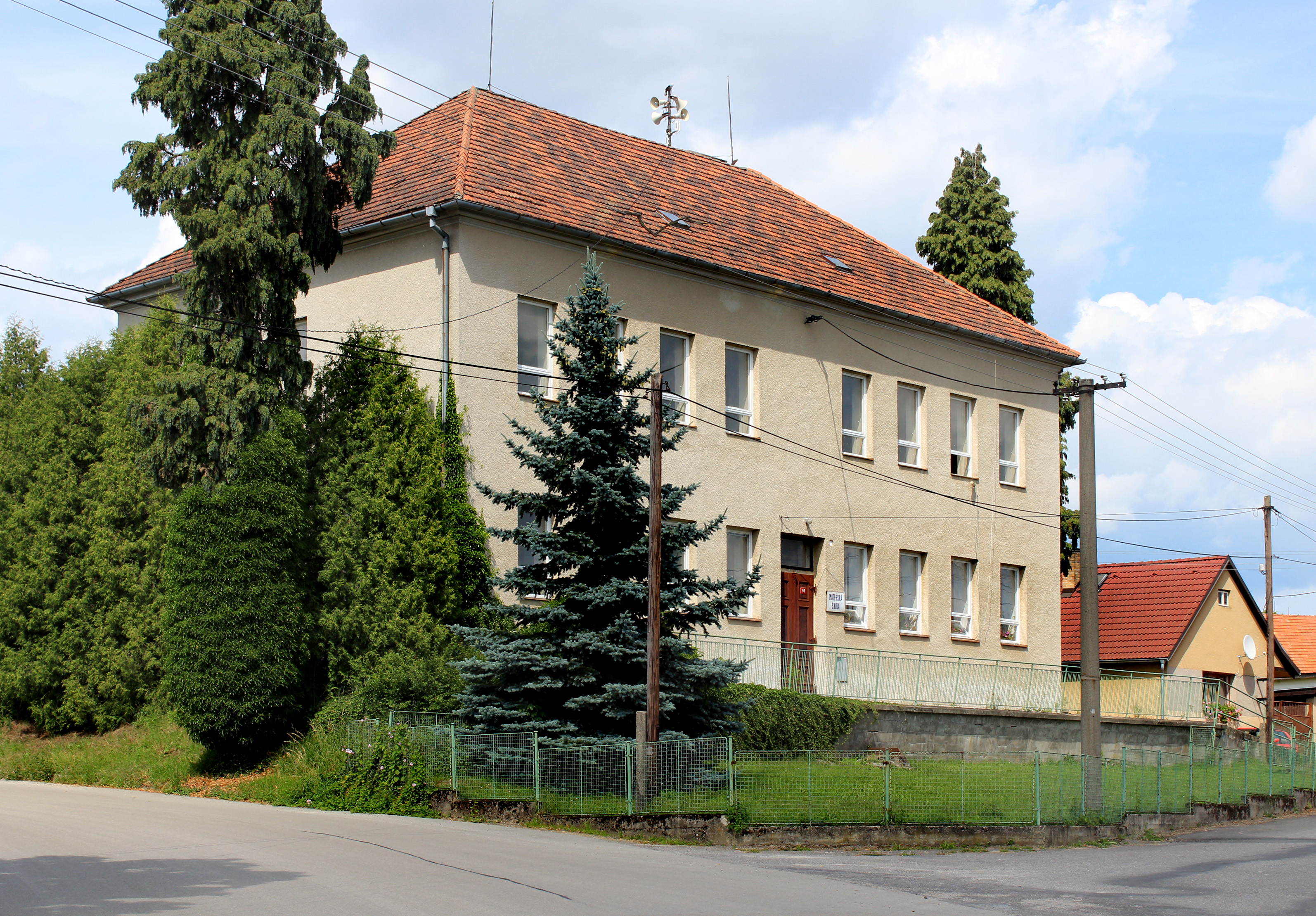 Old school, now kindergarten in Okrouhlá Radouň, Czech Republic.